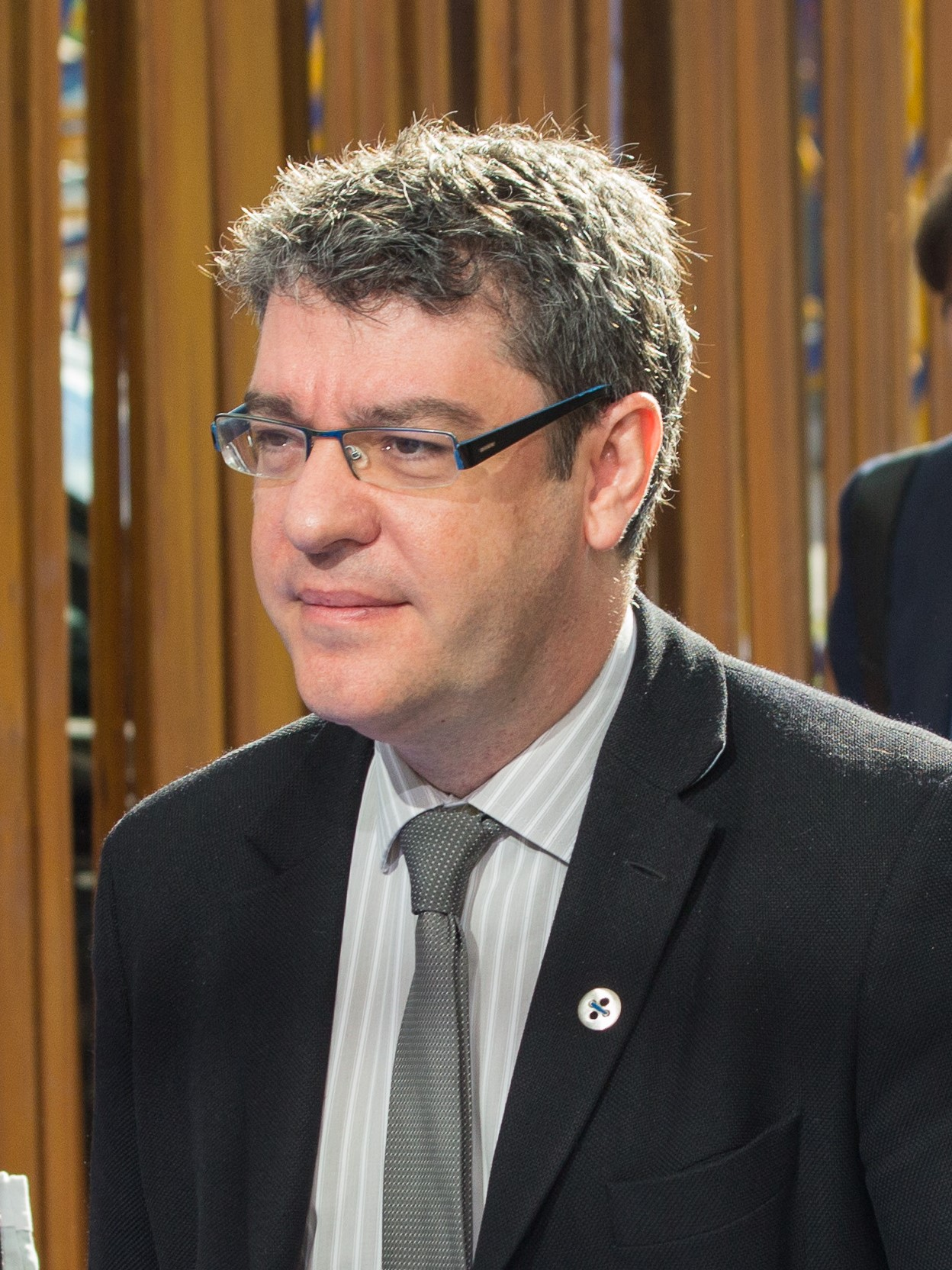 Álvaro Nadal 2017